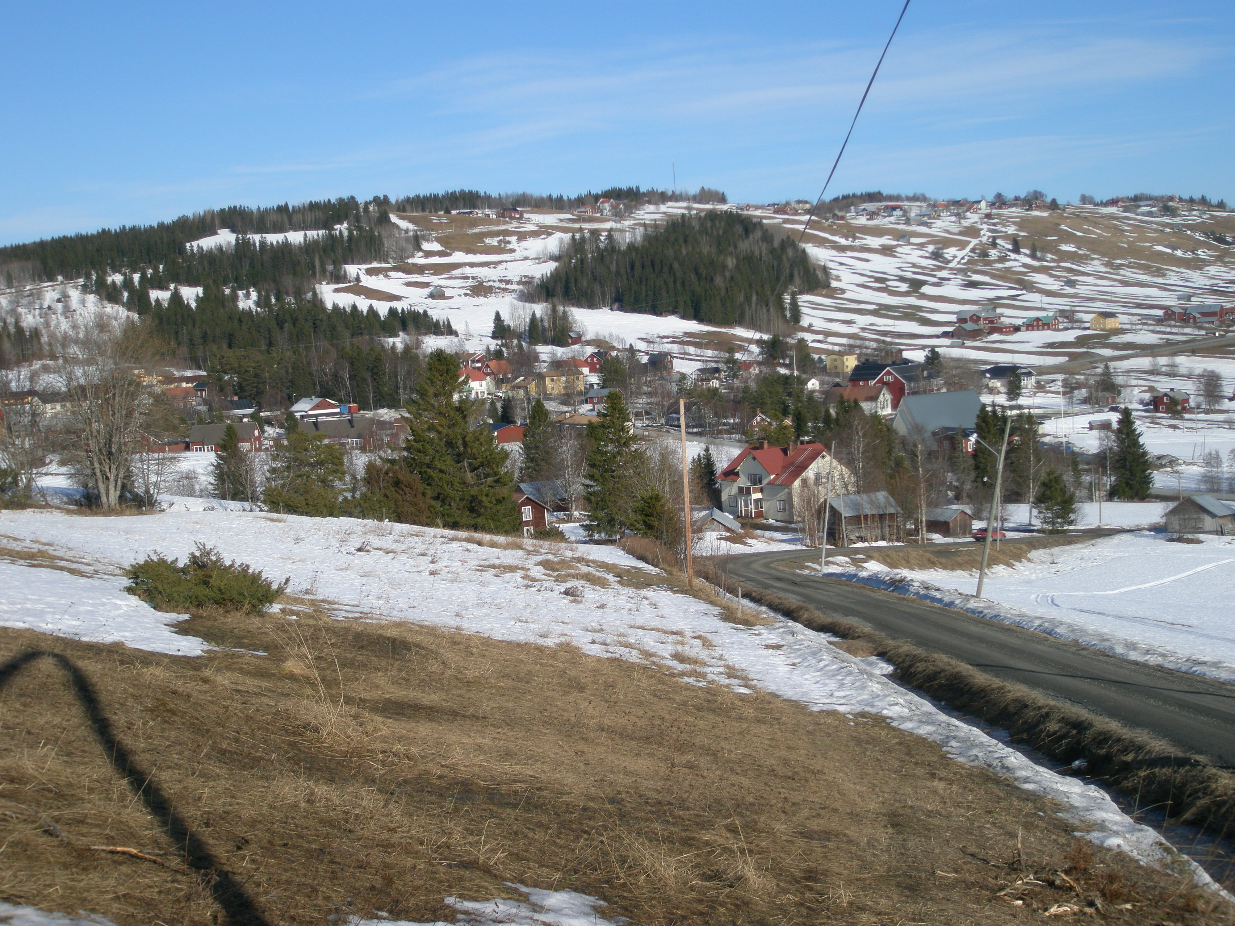 Kaxås, Offerdal, Krokom, Jämtland, Sweden.